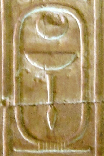 Cartouche 57, Abydos King List. Temple of Seti I, Abydos, Egypt